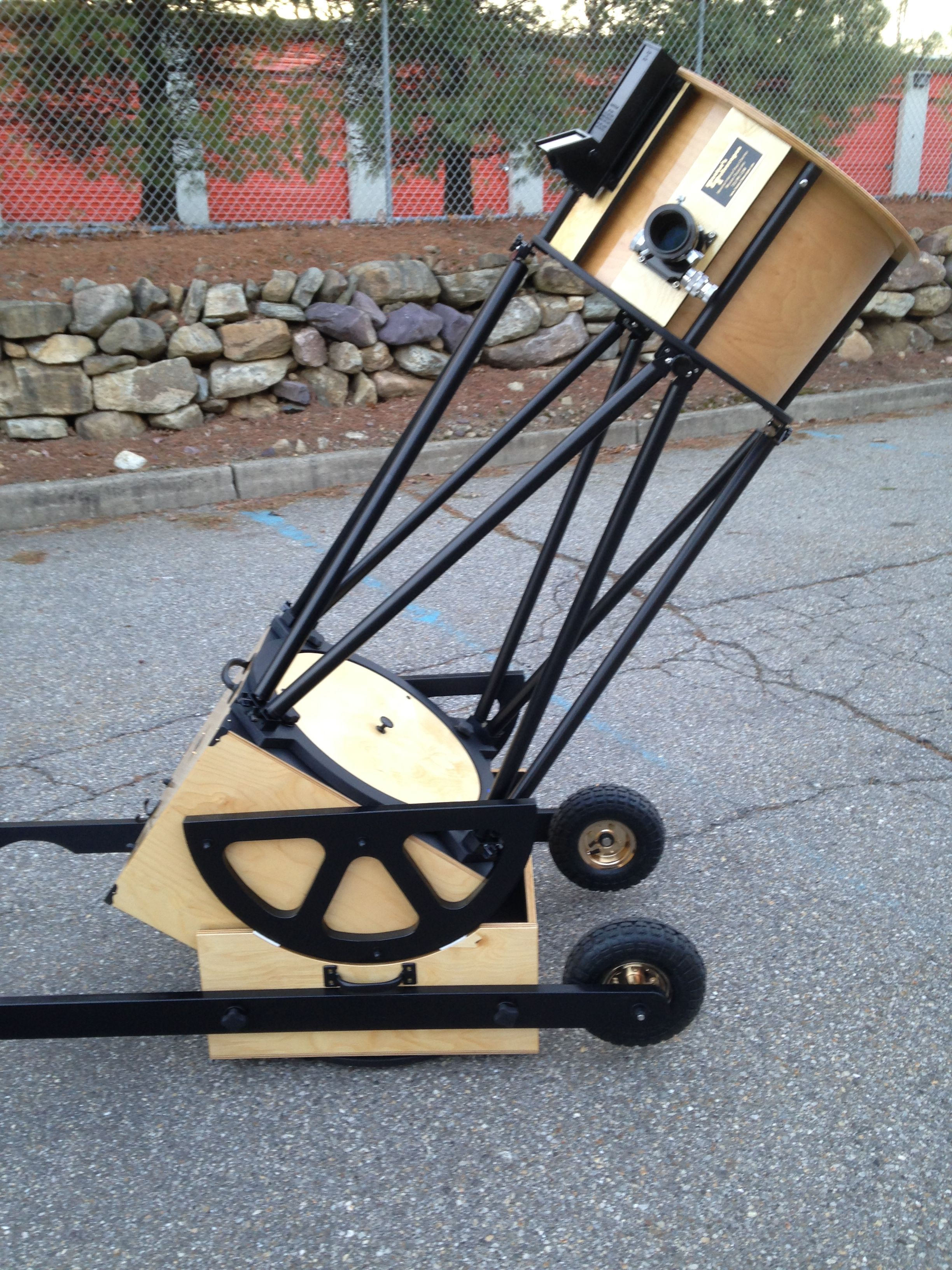 Example of custom truss-tube Dobsonian telescope